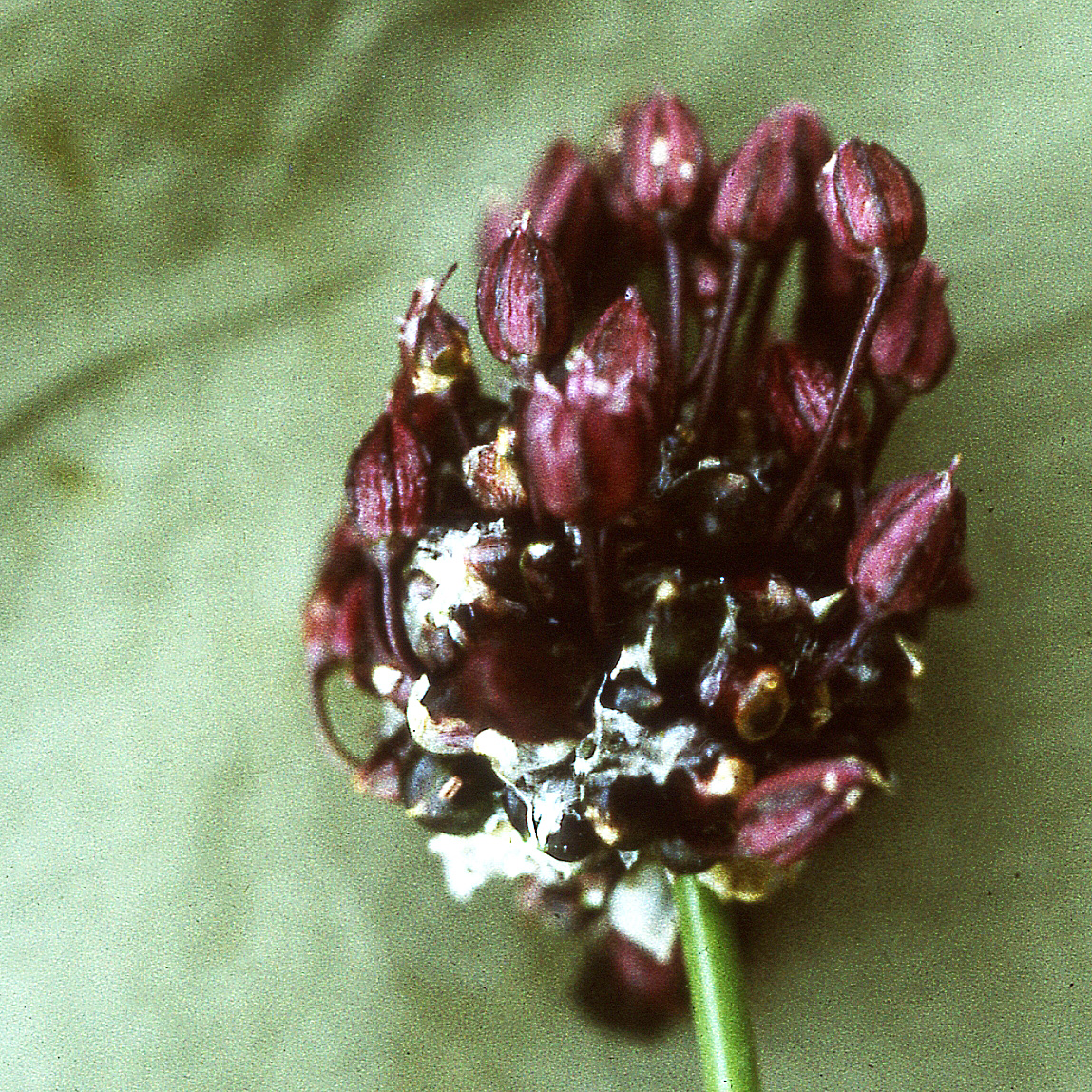 Inflorescence with bulbils in Allium